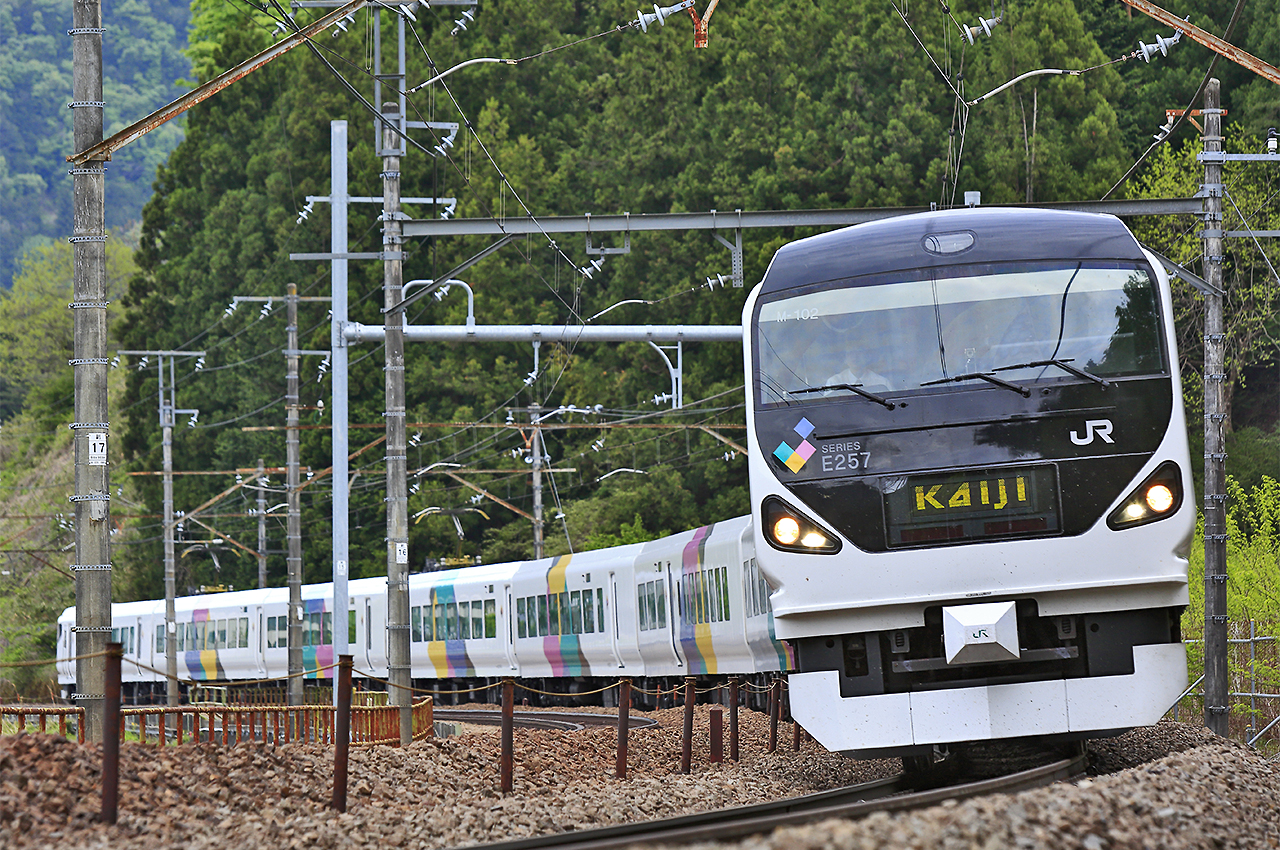 A JR East E257 series EMU, led by set M-102, on a Kaiji limited express service